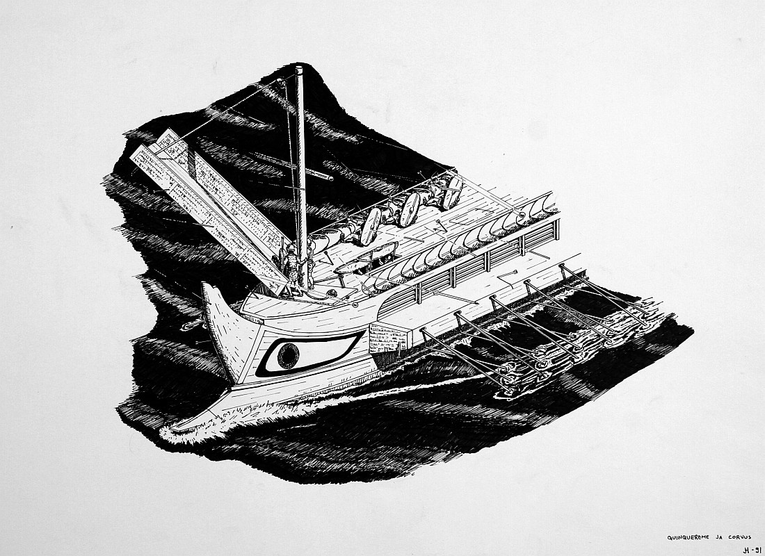 Trireme and Corvus (A Roman warship and an assault bridge, First Punic War)